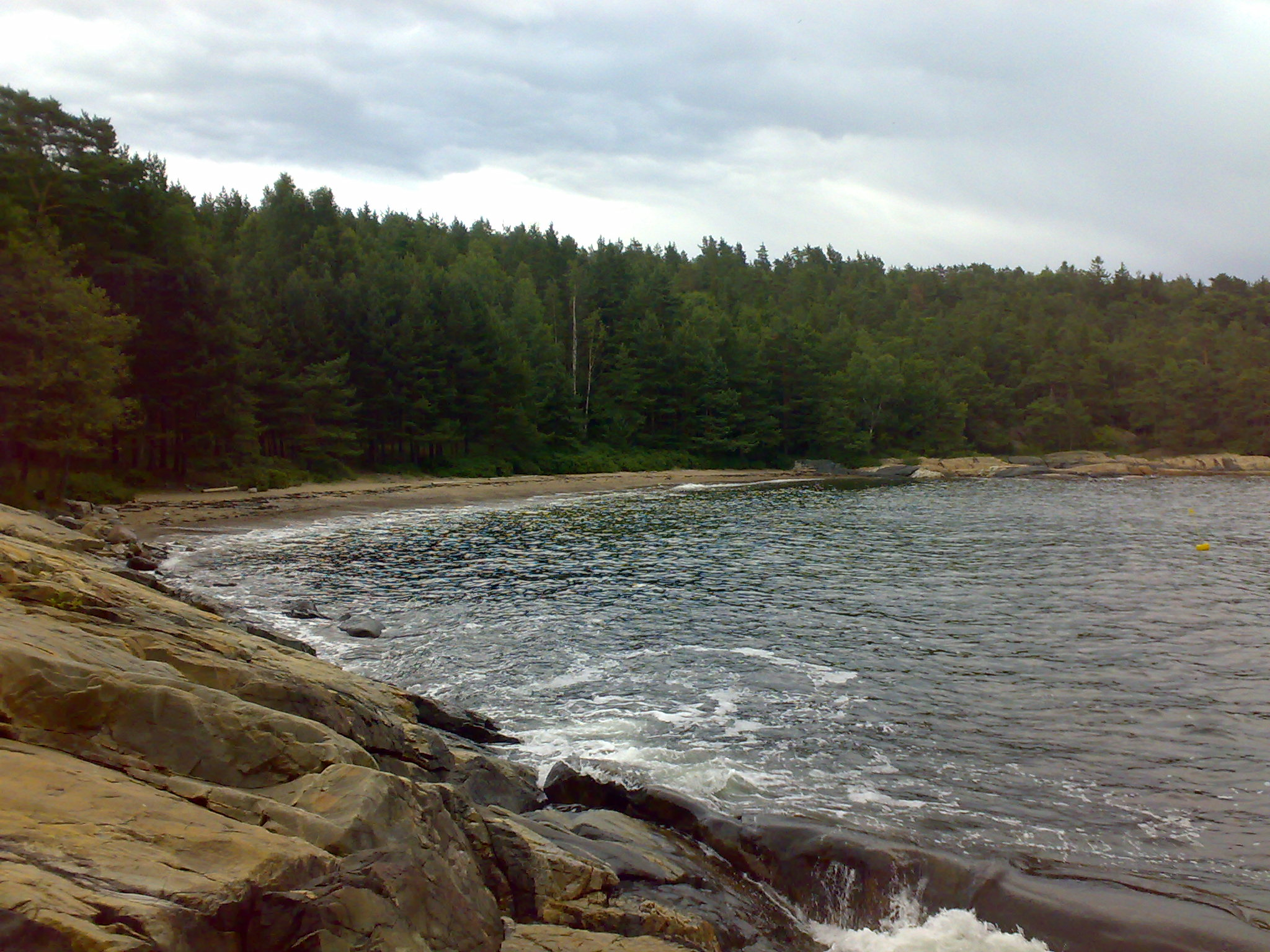 Sandbukta bay in southern Hurum, Norway